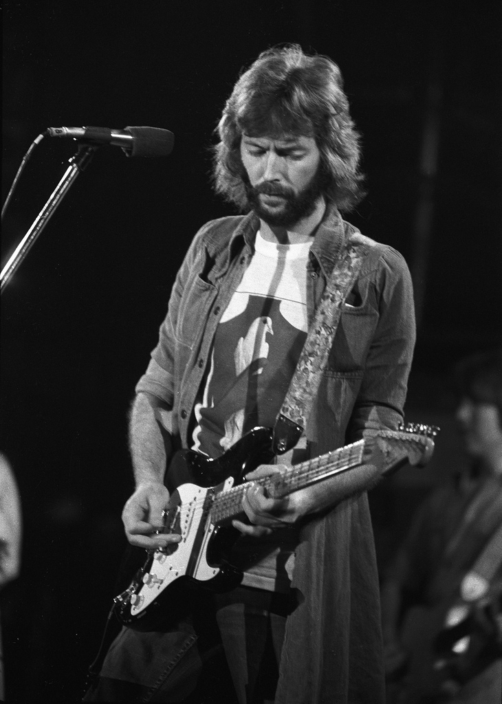 Eric Clapton - Swing Auditorium, San Bernardino, CA, There's One In Every Crowd Tour. Aug. 15, 1975, Monochrome Frame 17. Reduction of Tri-X Negative scan at 4000dpi. Shot with an Asahi Pentax w/200mm telephoto. He's playing Blackie.